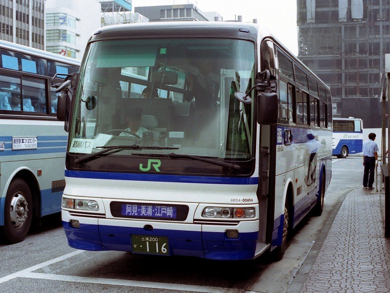 JR bus Kanto Highwaybus "Tokyo-Edosaki(Inashiki city,Ibaraki,Japan)